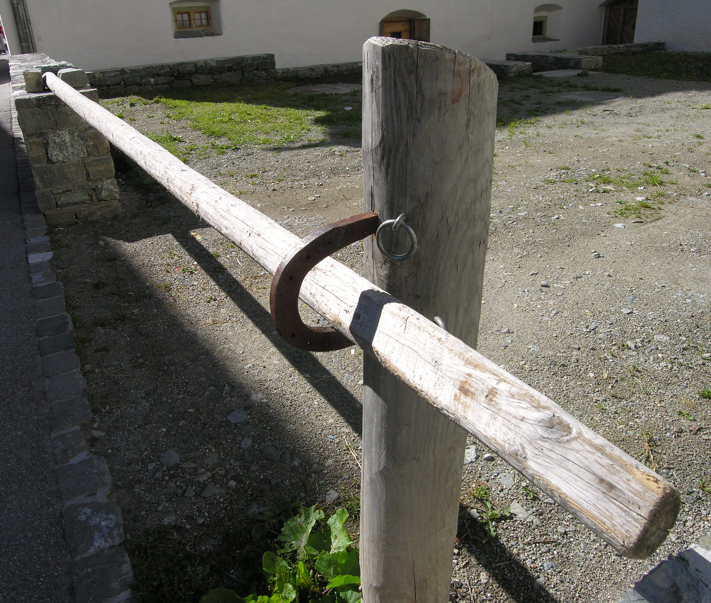 Boom barrier, old design.